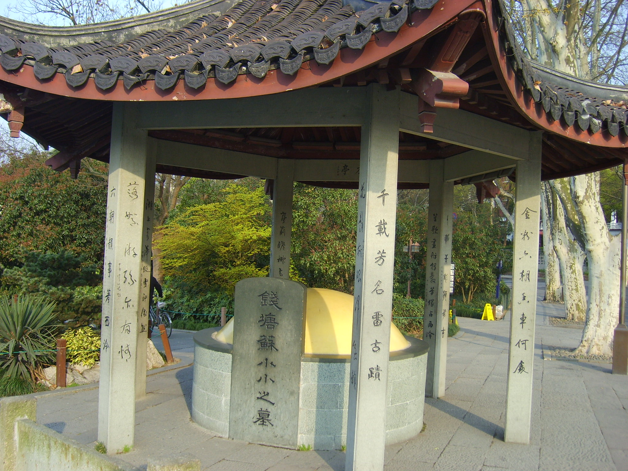 Su Xiaoxiao Tomb Full